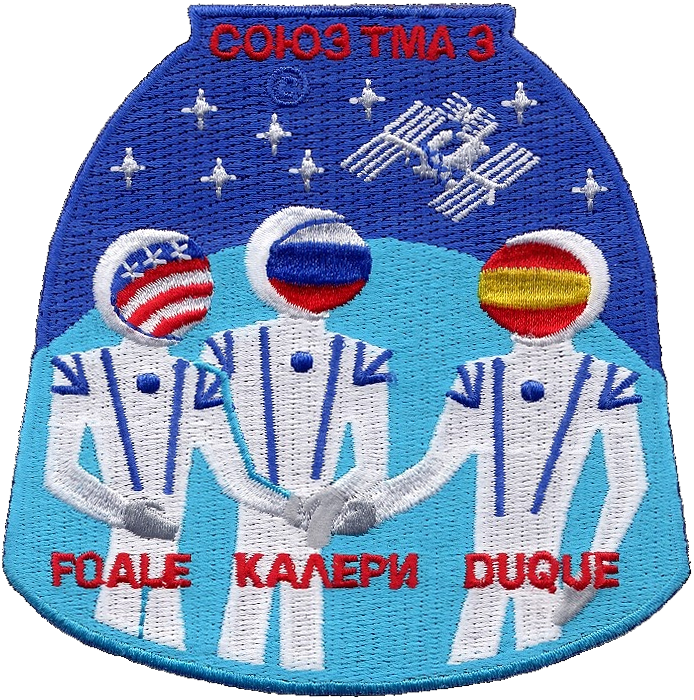 Soyuz TMA-3 crew patch, designed by Luc van den Abeelen.